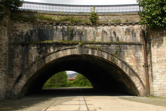 Engineering Nightmares Looking north along the alignment of the Campsie Branch Railway (two 'symbolic' rails have been laid within a brick mosaic), above is an aqueduct carrying the Forth & Clyde canal complete with fancy wrought-iron railings - and below, the Luggie Water as it makes its way unseen to join the River Kelvin. Which came first? The Luggie takes precedence, but the canal came next (opening from Kirkintilloch to Grangemouth in 1773). When the railway wanted to cross in 1848 it had to create this magnificent structure to allow navigation to pass over the tracks below.